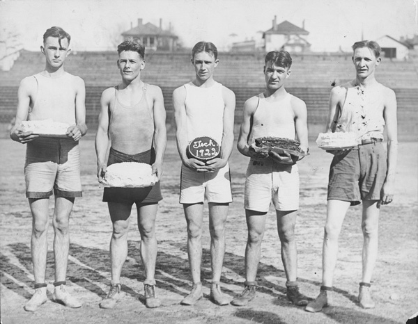 Subject: The winners of the 1922 Freshman Cake Race at Georgia Tech